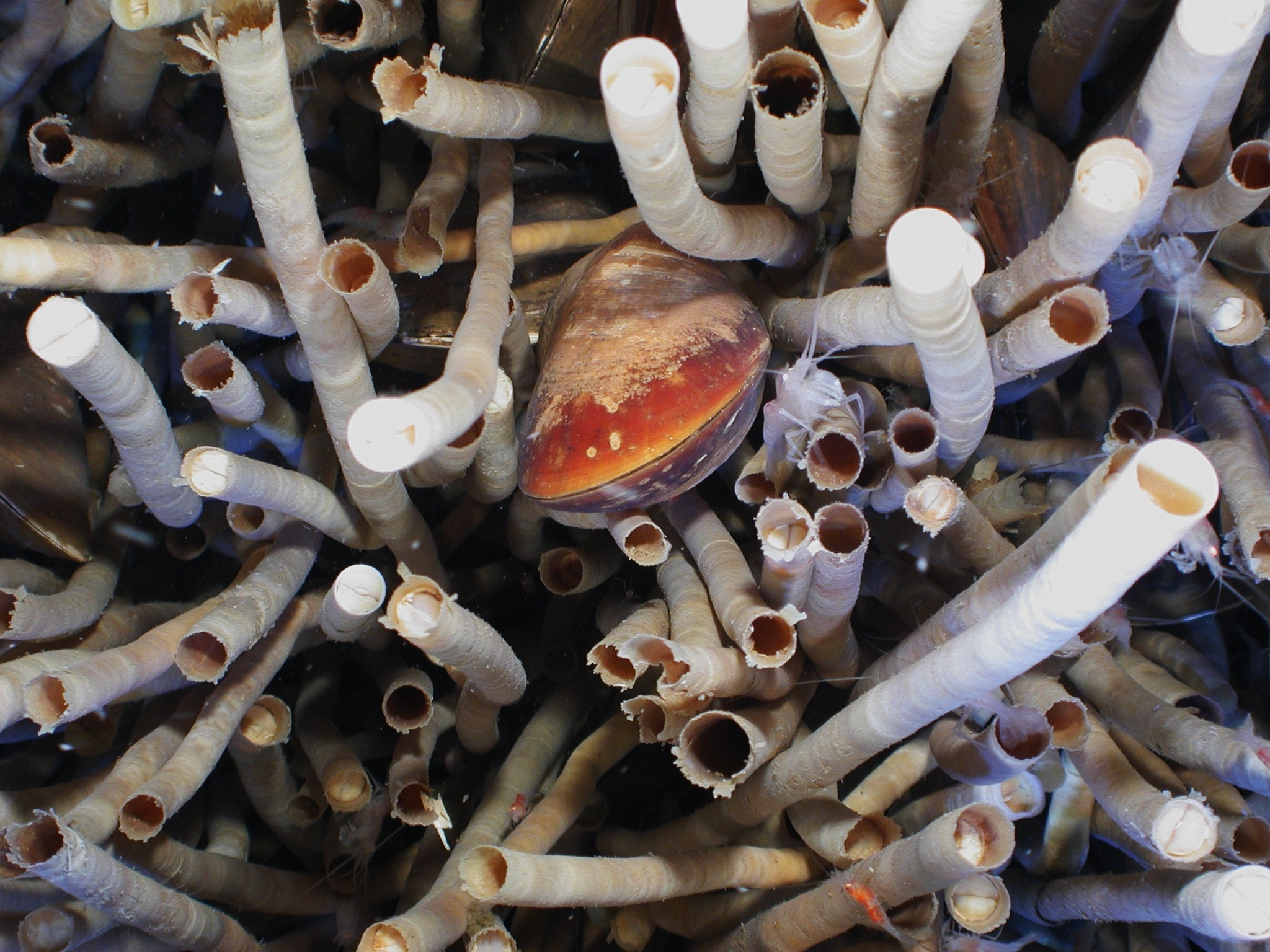 Operation Deep Slope 2007. Lamellibrachia sp. tube worms at a cold seep. Gulf of Mexico.